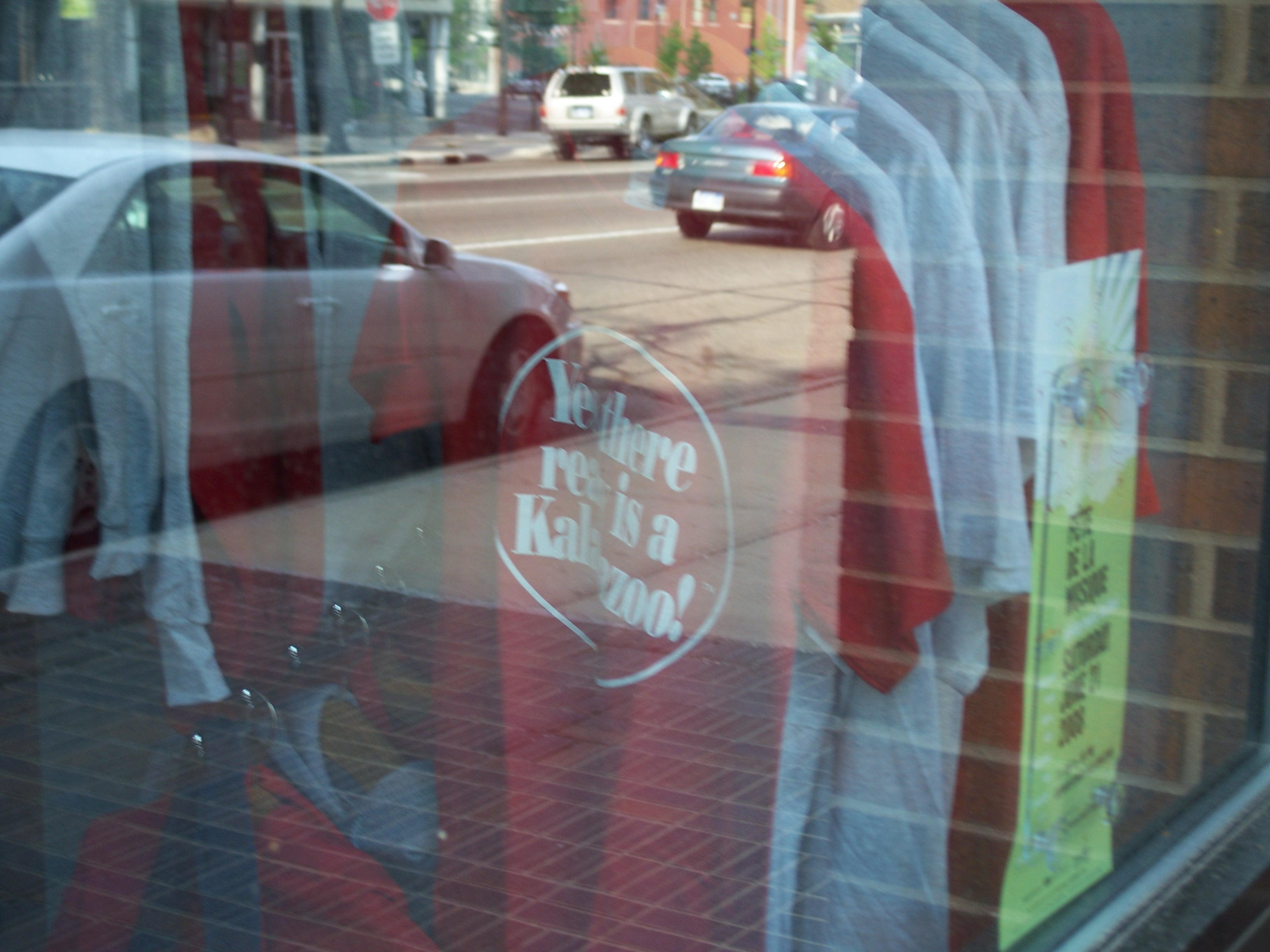 "Yes there really is a Kalamazoo" T-shirt